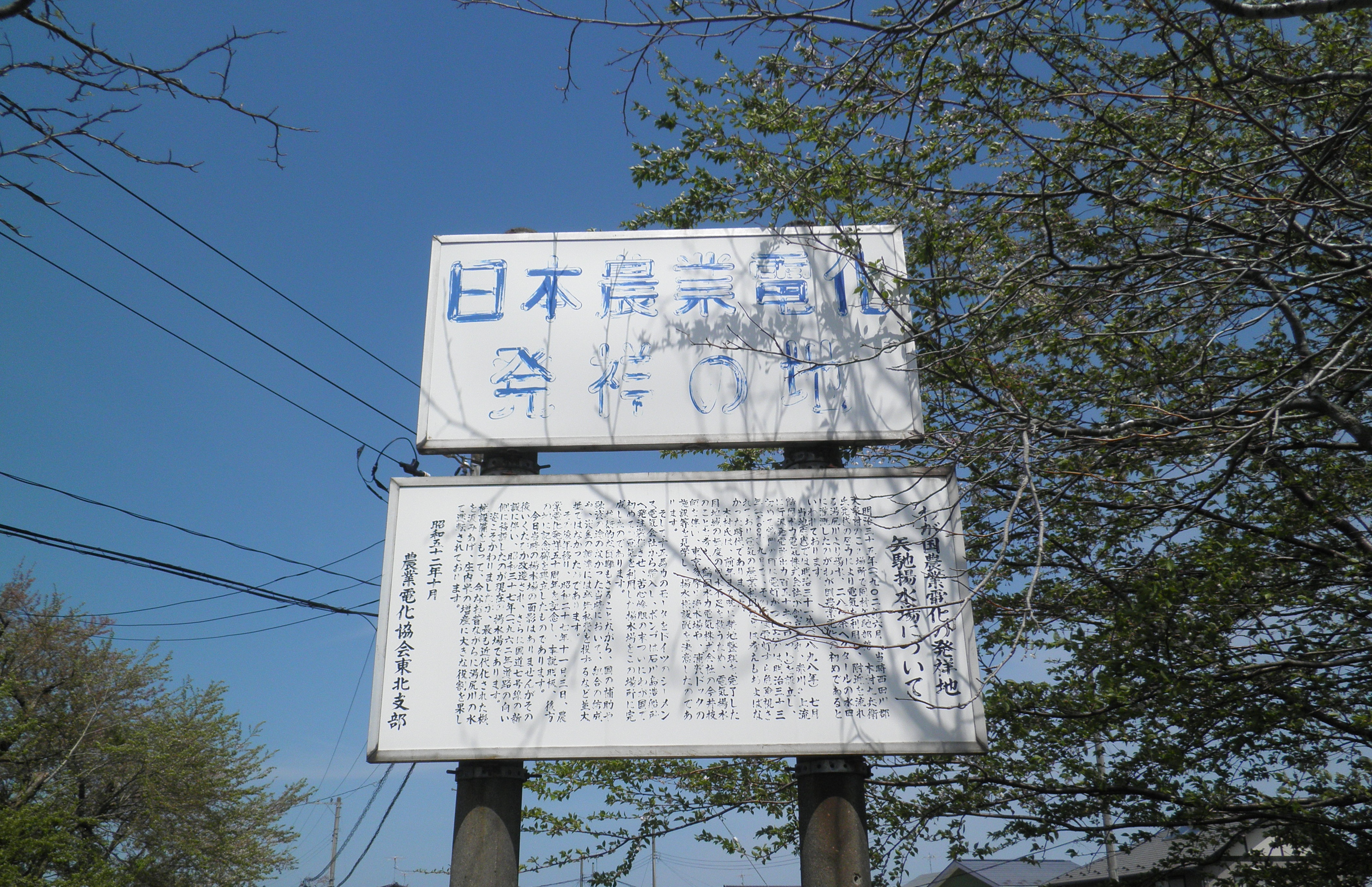 Kuhe Kimura's board monument presented by Japan Agricultural Electro Association